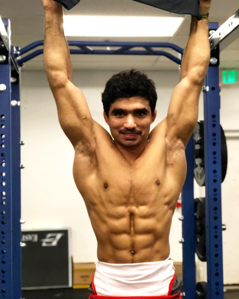 This Photo is clicked by Me by Poco f1